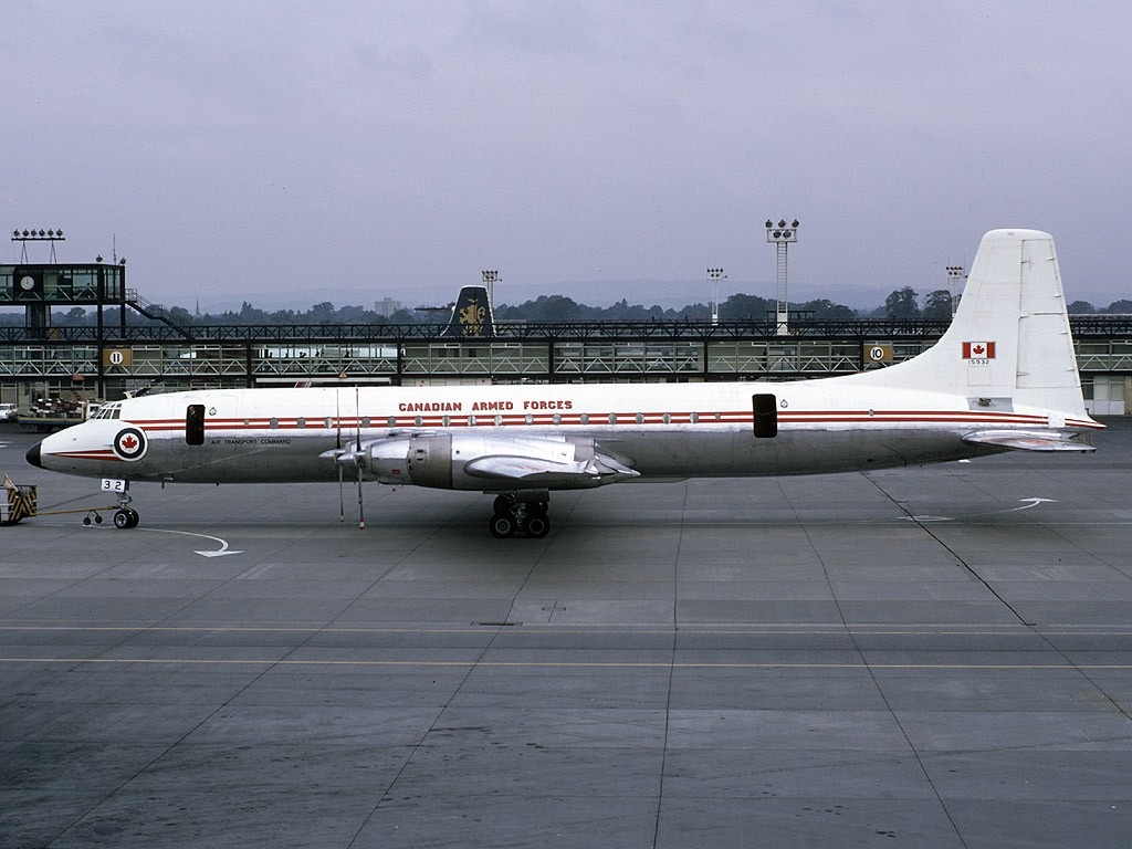 Royal Canadian Air Force Canadair CC-106 Yukon at London Gatwick Airport